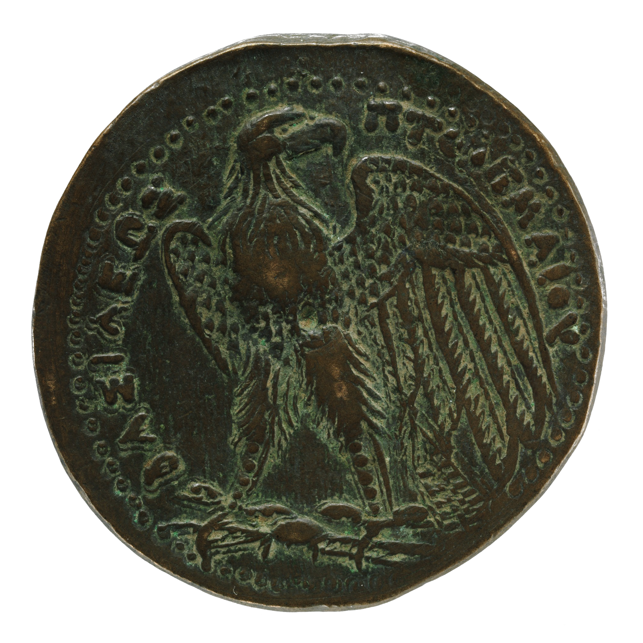 Coin, Ptolemy II